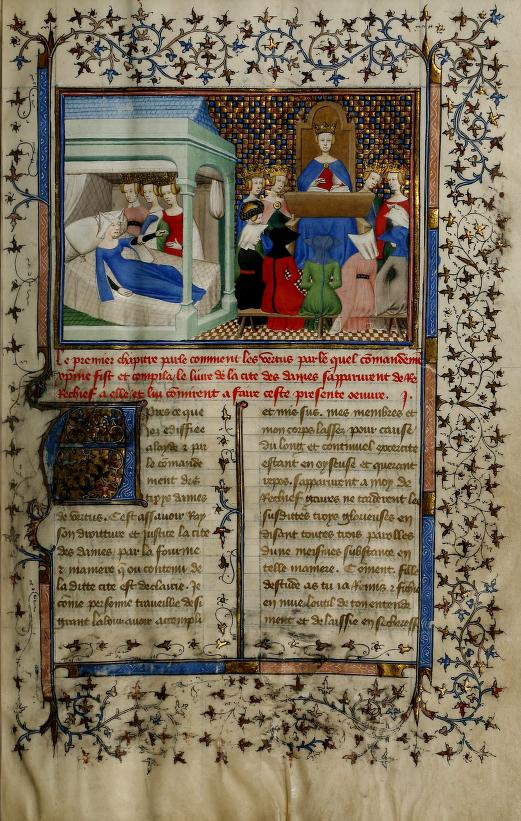 Illustration from Christine de Pisan, Le livre des trois vertus; author is kept from rest by the Three Virtues. Boston Public Library, Special Collections, MS f. Med. 101. France, s. XVmed. Christine de Pizan, Le livre des trois vertus, in French.